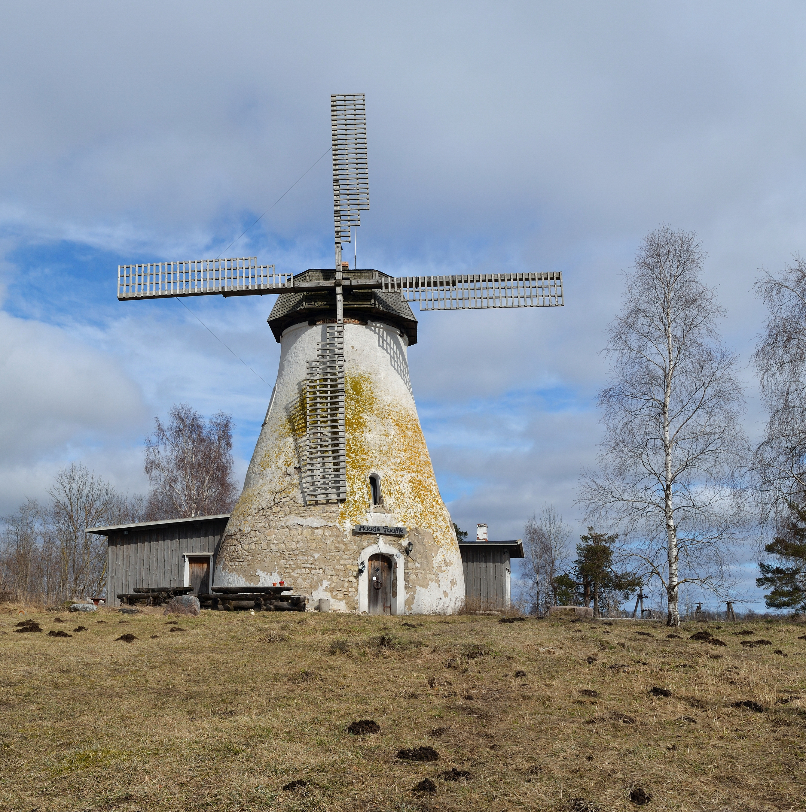 Muuga manor windmill